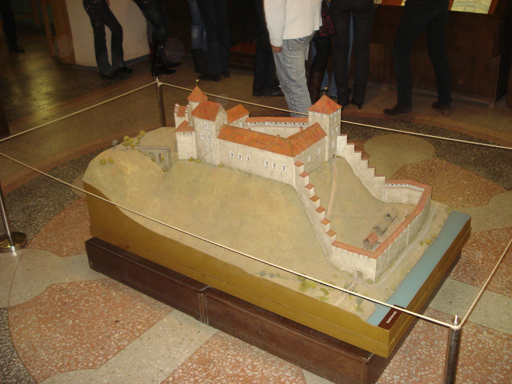 Museum model of Dinaburga (Dünaburg) Castle on the north bank of the Daugava River near present day Naujene